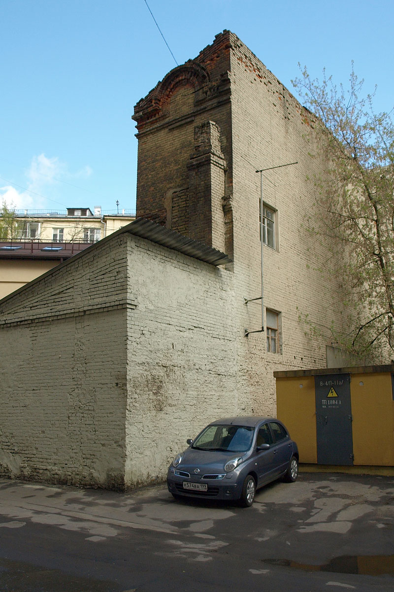 Second Goncharny Lane, Moscow